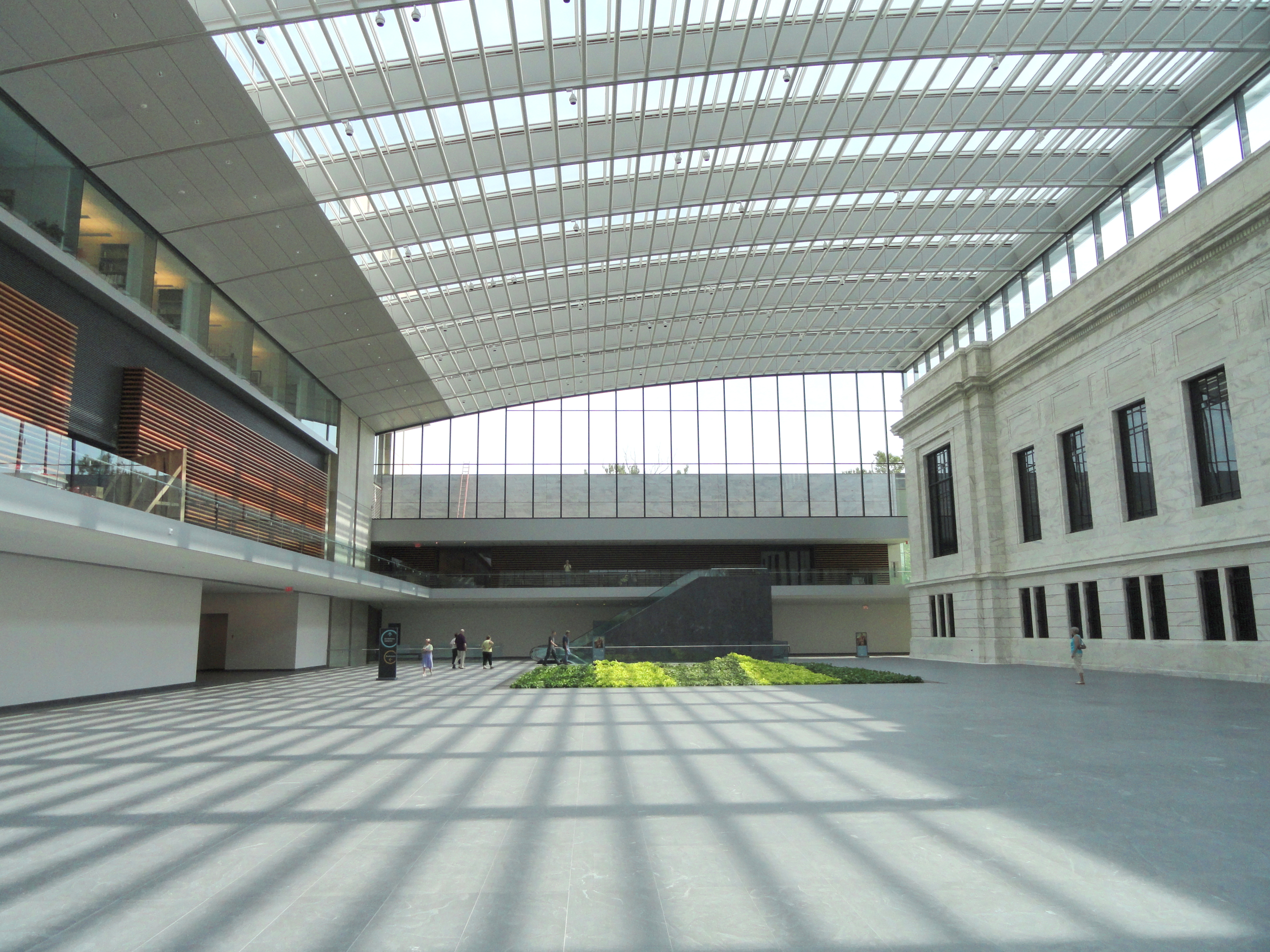 Cleveland Museum of Art, Cleveland, Ohio, USA.